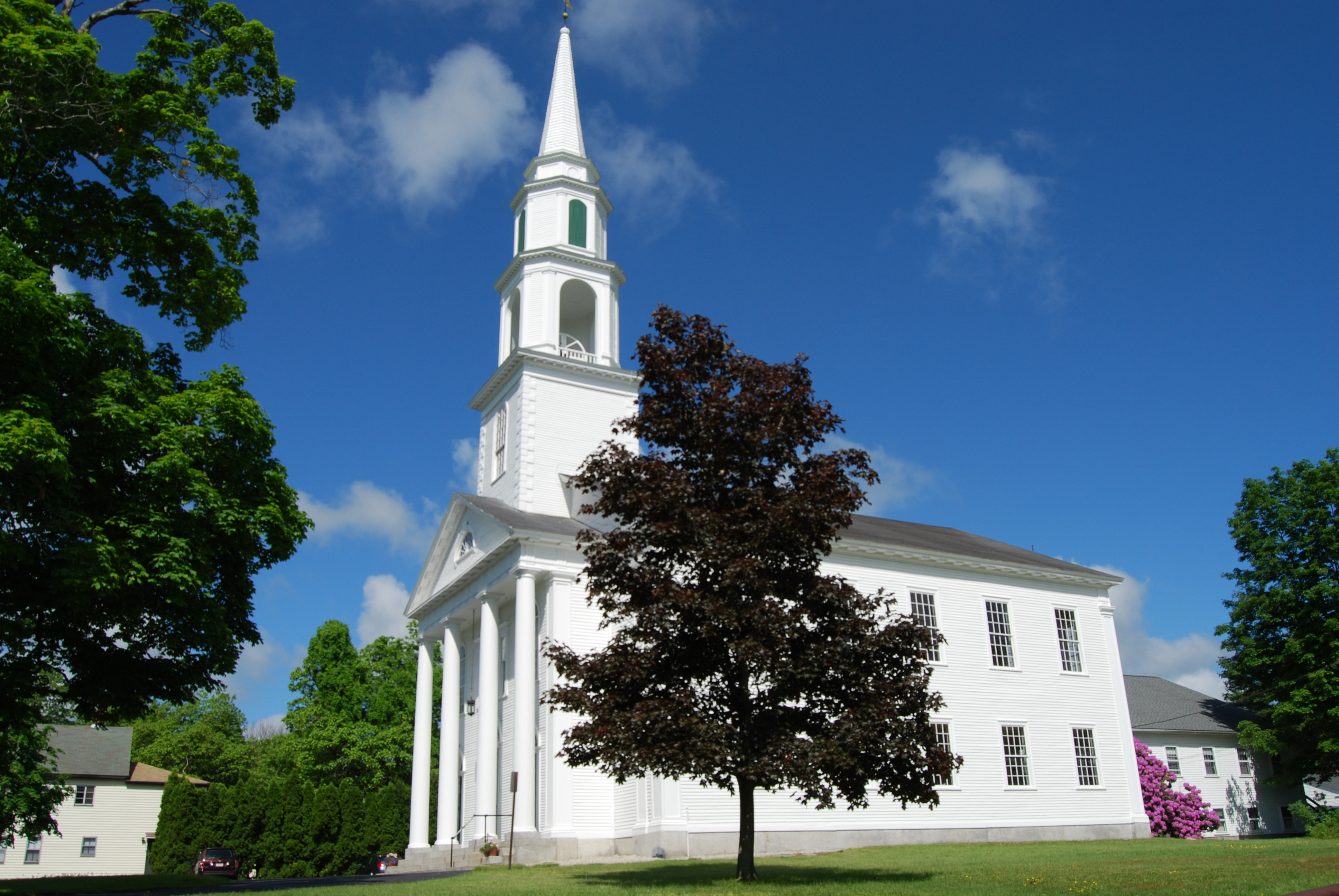 First Parish Church, Mendon, Massachusetts